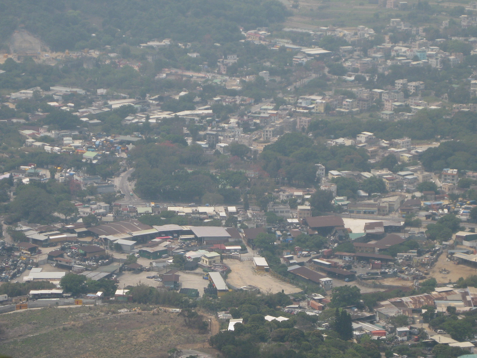 Sheung Tsuen overview